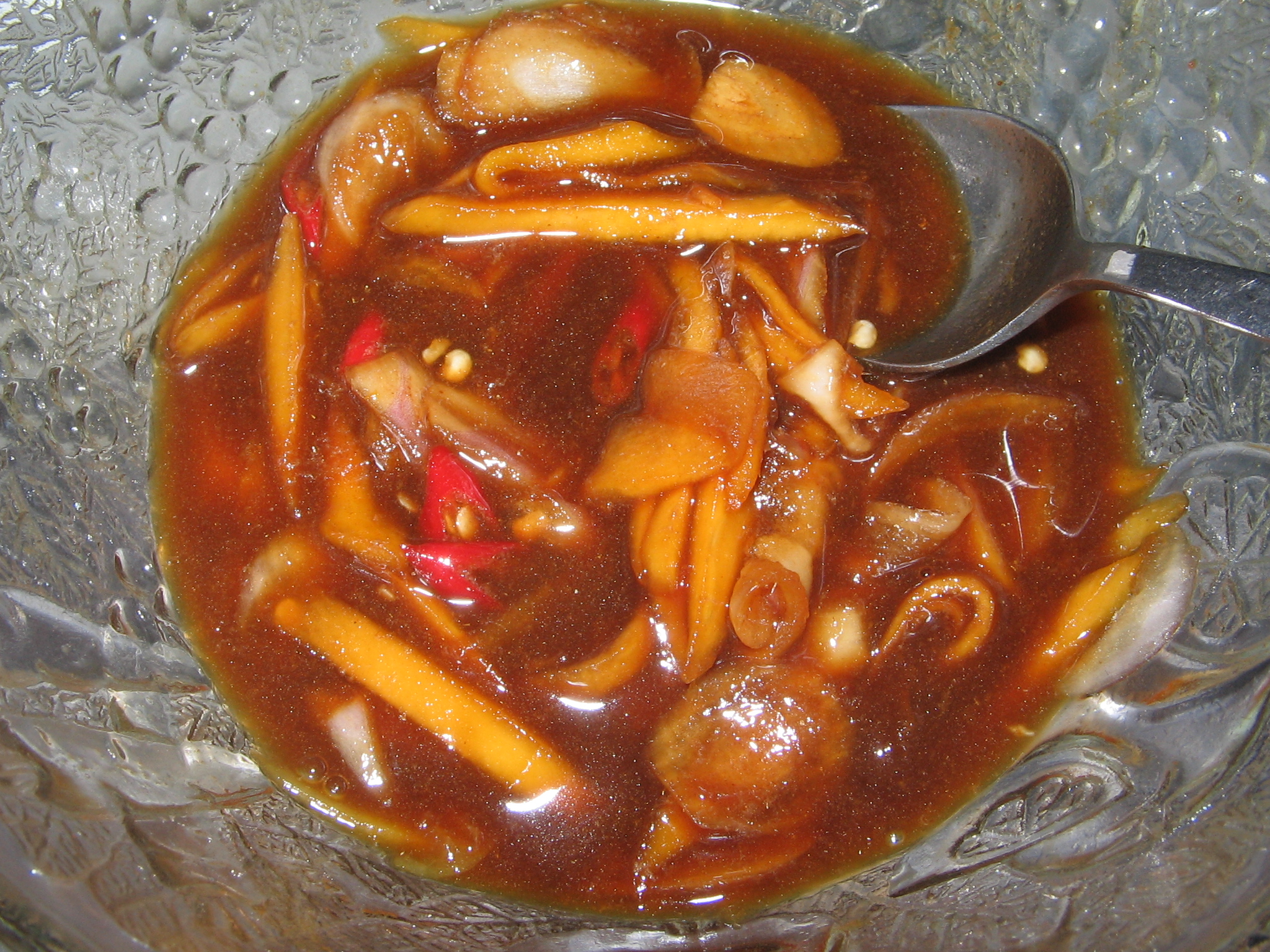 Budu sauce, ready for serving.